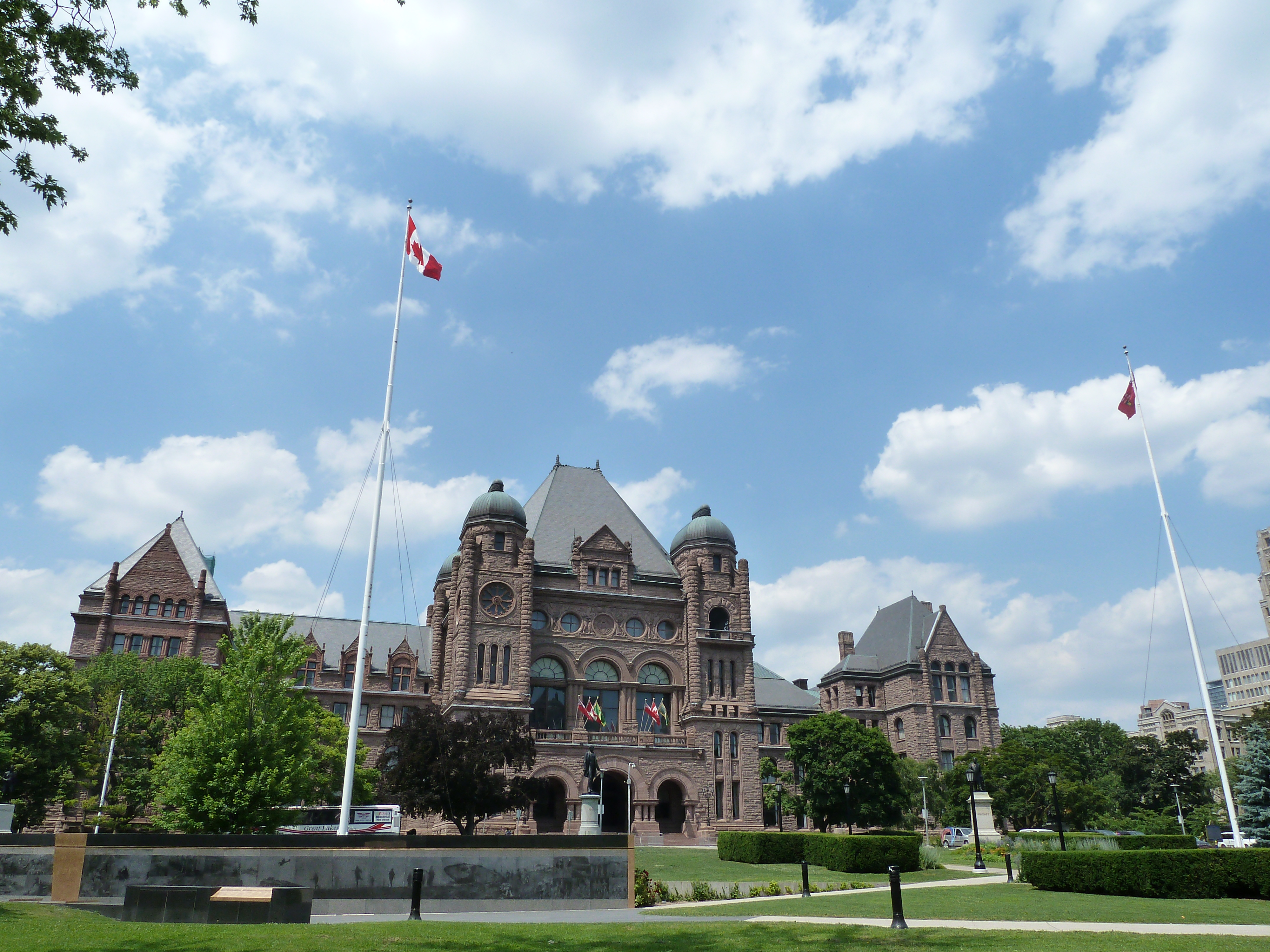 Ontario Legislative Building in Toronto, Ontario, Canada.